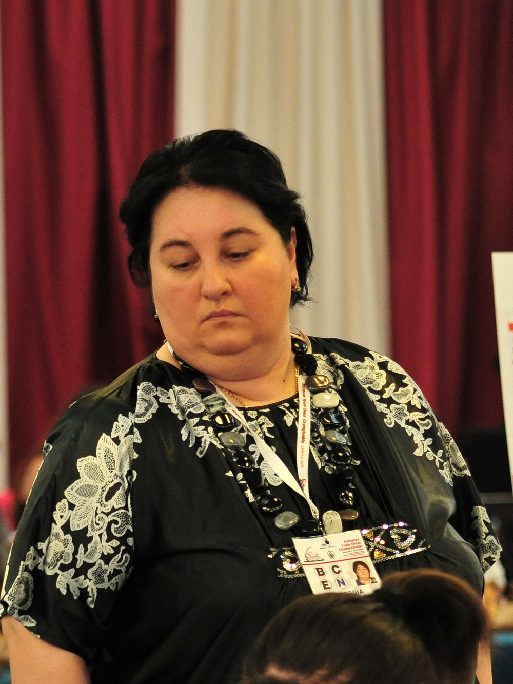 IM Nino Gurieli, European Chess Team Championship Warsaw 2013